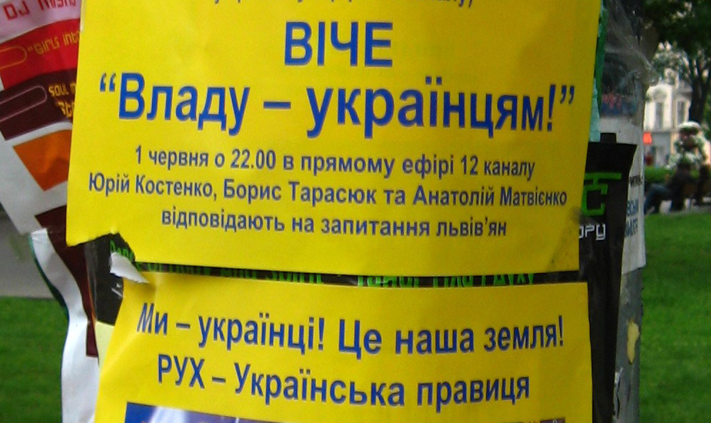 "Rule to the Ukrainians." A political leaflet. Lviv, 2007.